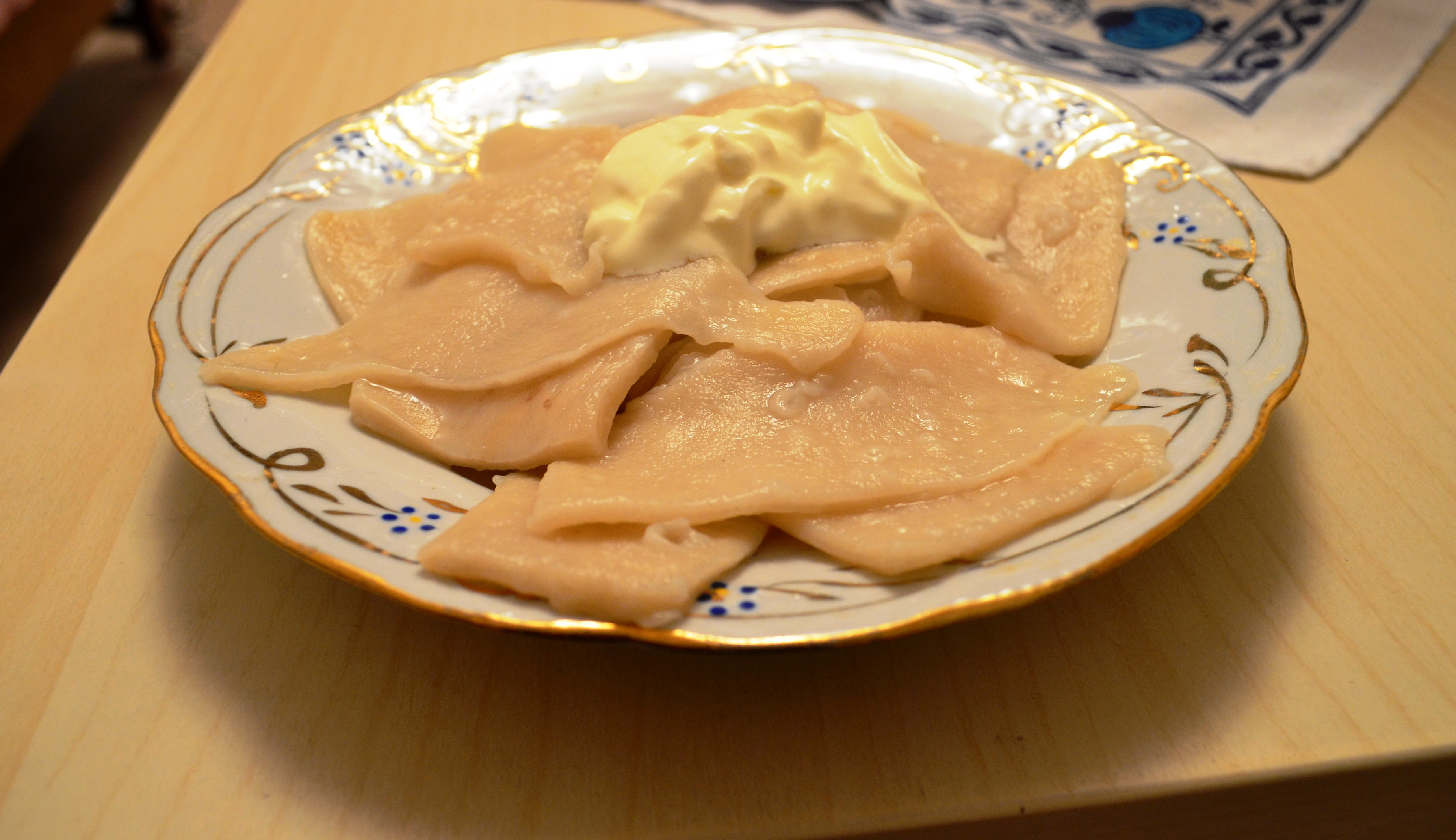 Lazanki